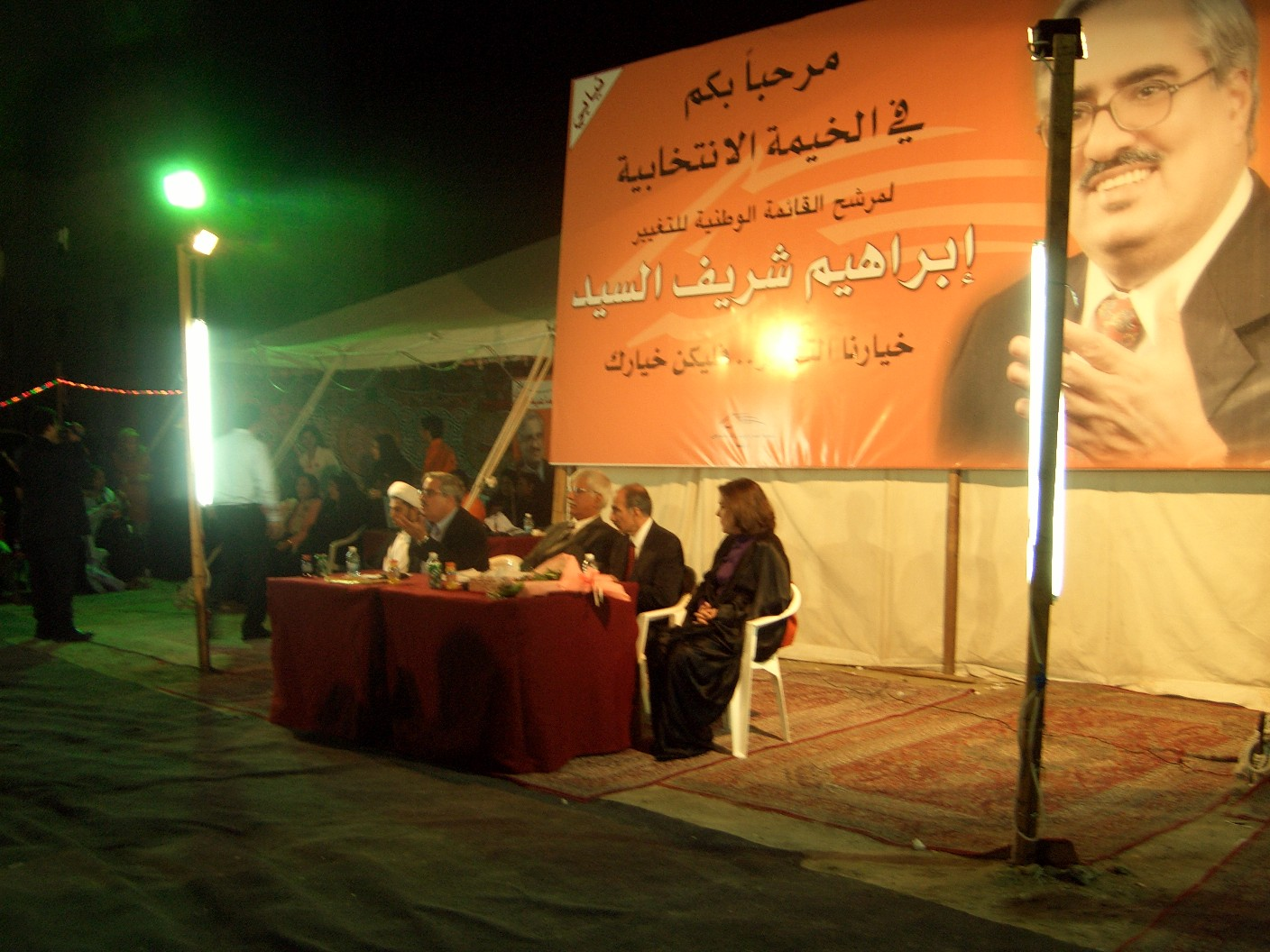 Photo: Soman